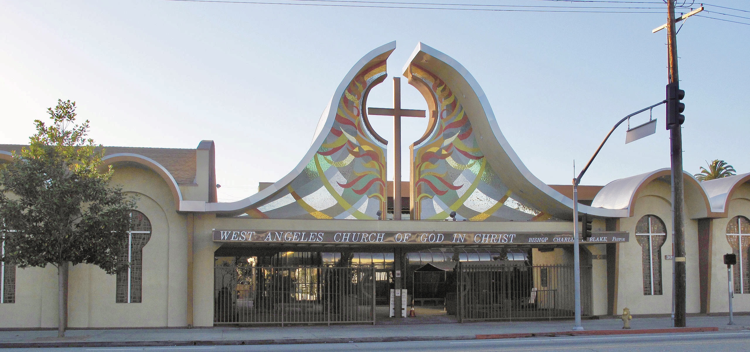 Front entrance to West Angeles North Campus building at 3045 Crenshaw Boulevard, Los Angeles, California.